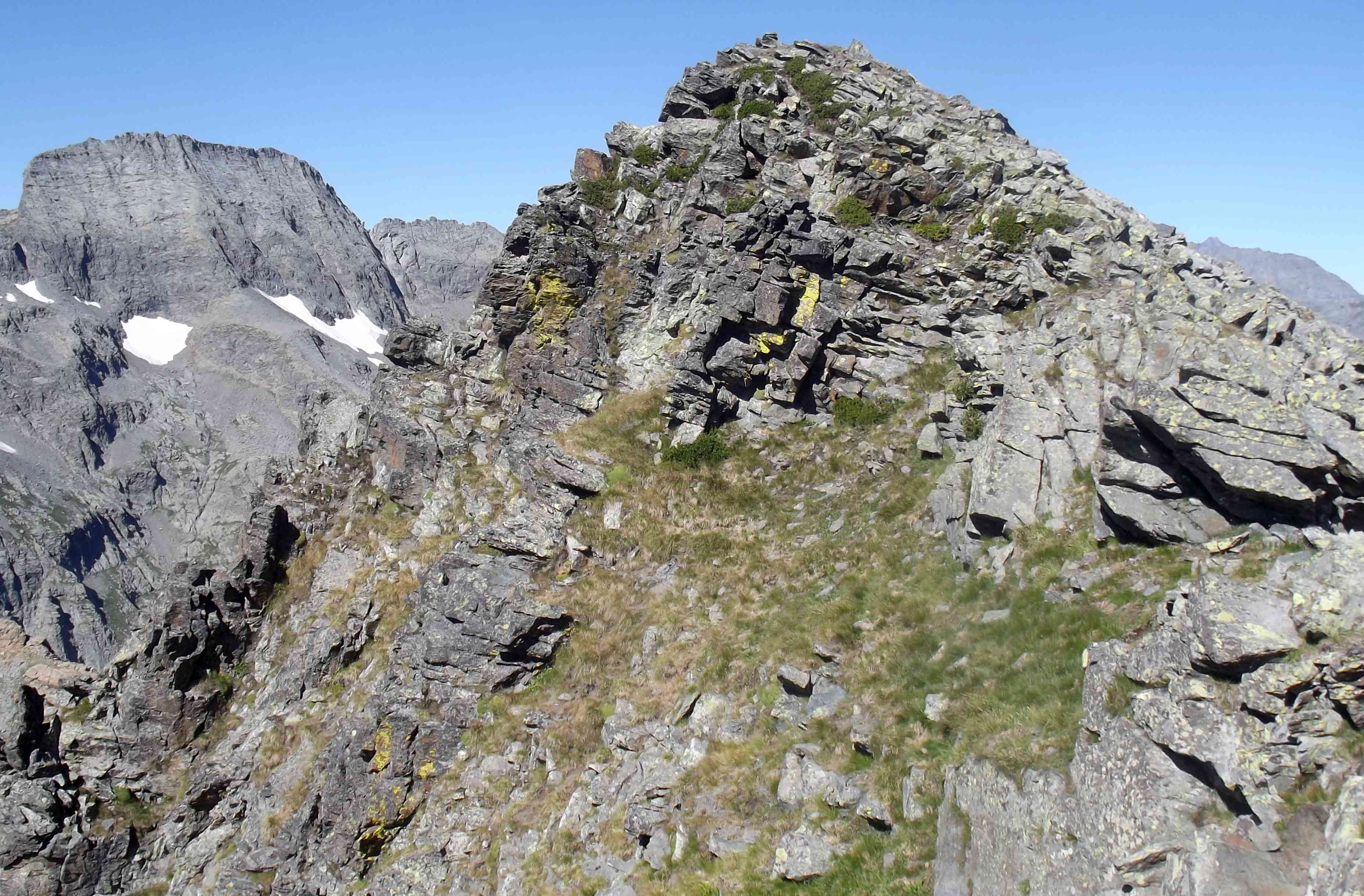 Cima Chiavesso (Graian Alps, TO, Italy), in the background the Torre d'Ovarda